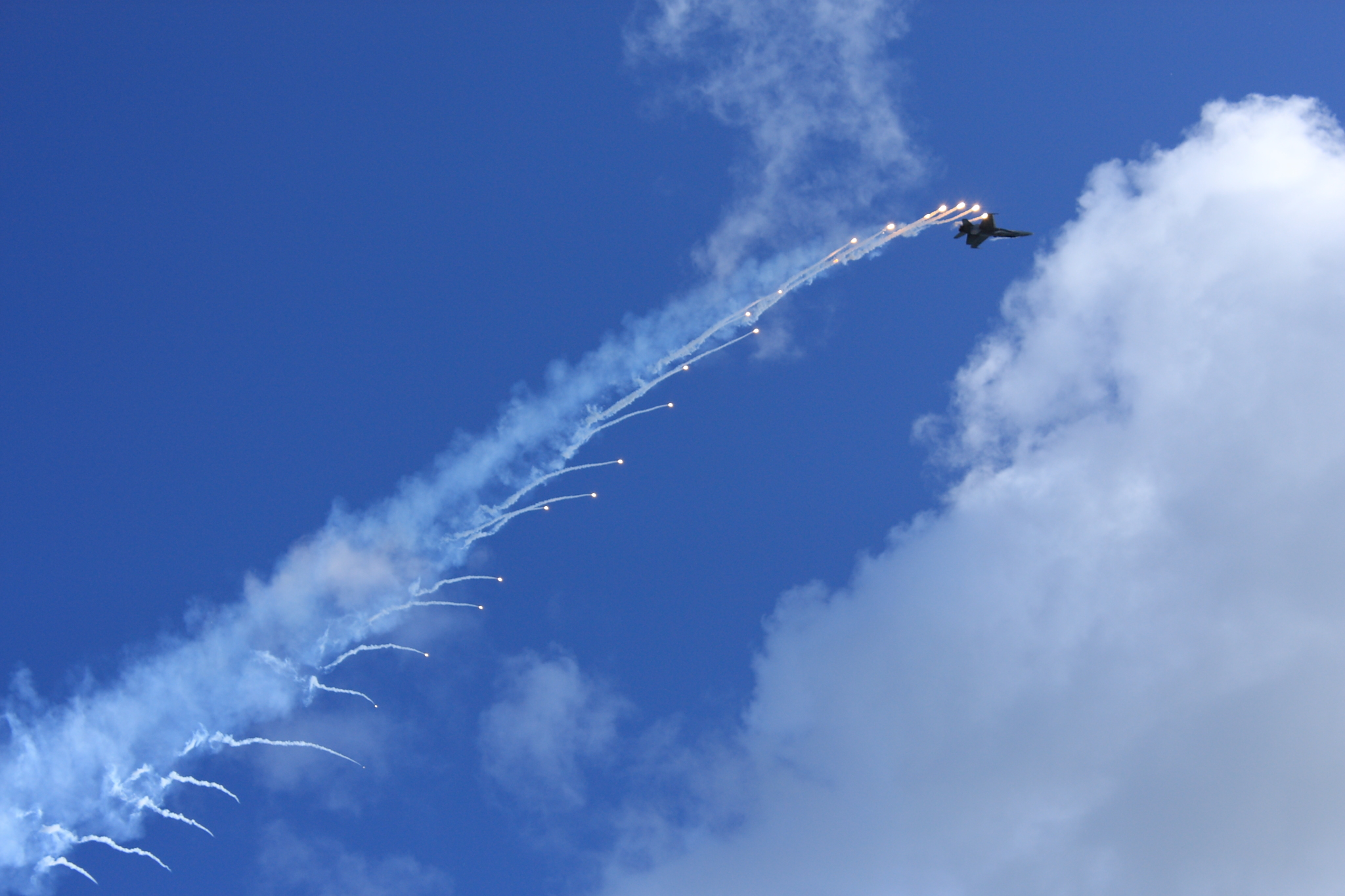 A Finnish F-18 Hornet releases flares during Helsinki International Airshow 2009.